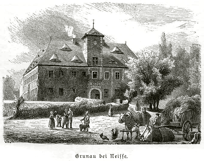 Wood engraving of Grunau palace (today Siestrzechowice)